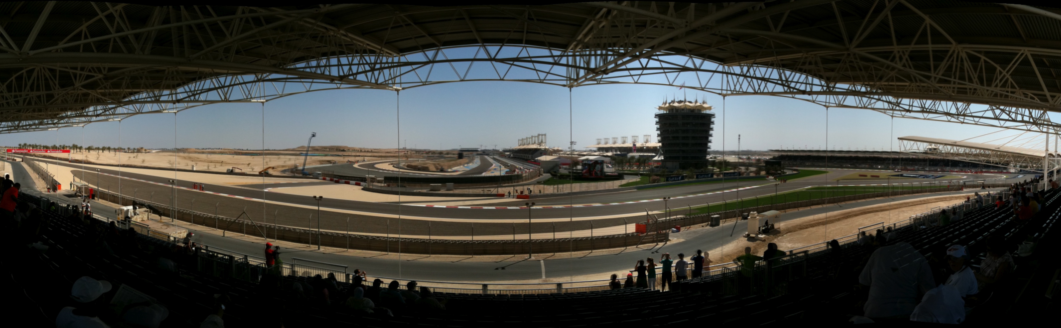 Turn one on the far right, the back straight in the center.